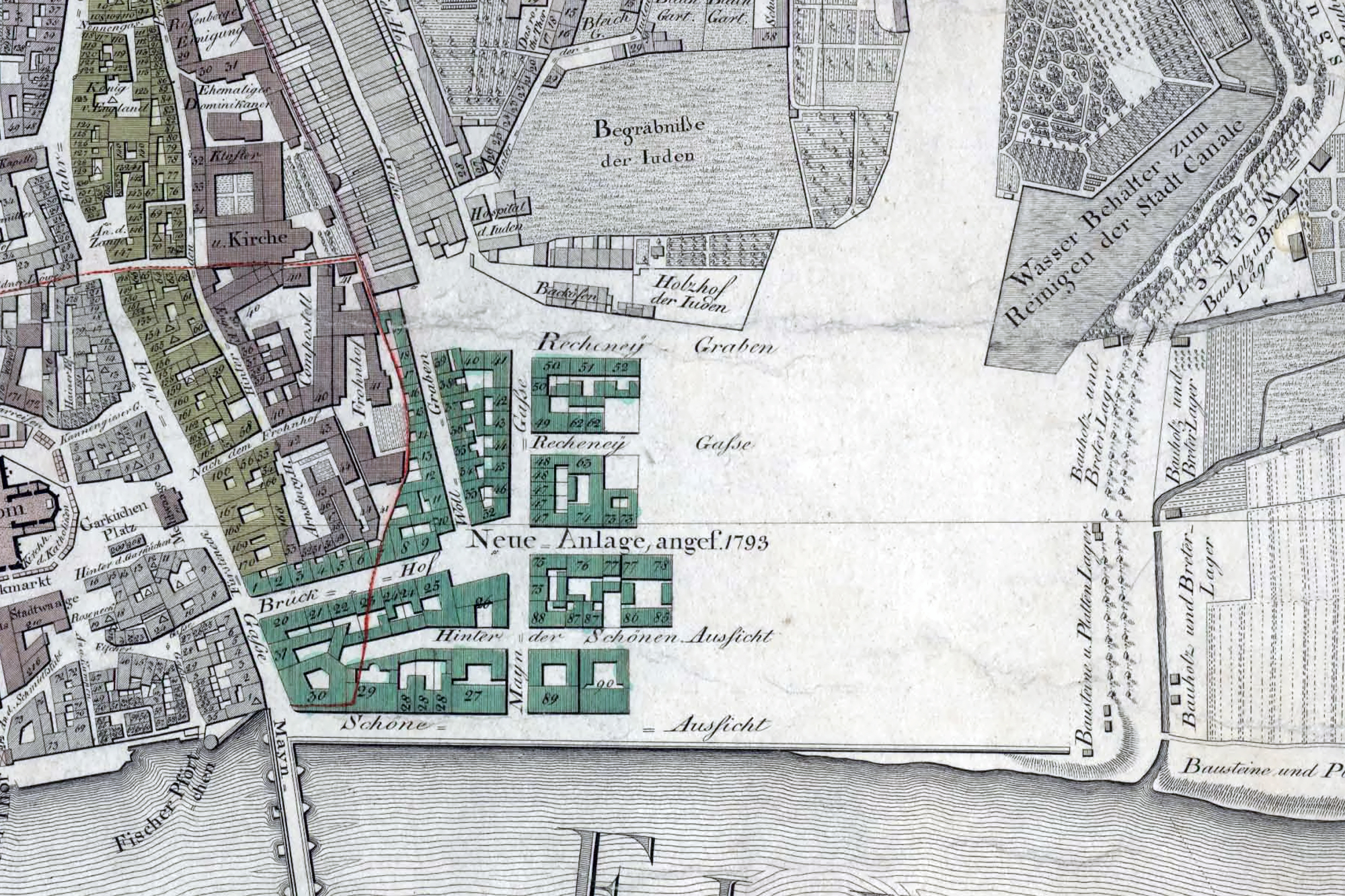 Frankfurt am Main: Detail of Ulrich's plan of 1811 showing the Fischerfeldviertel (Fisher Field Quarter) under construction, here still under the working title Neue Anlage (New Asset)